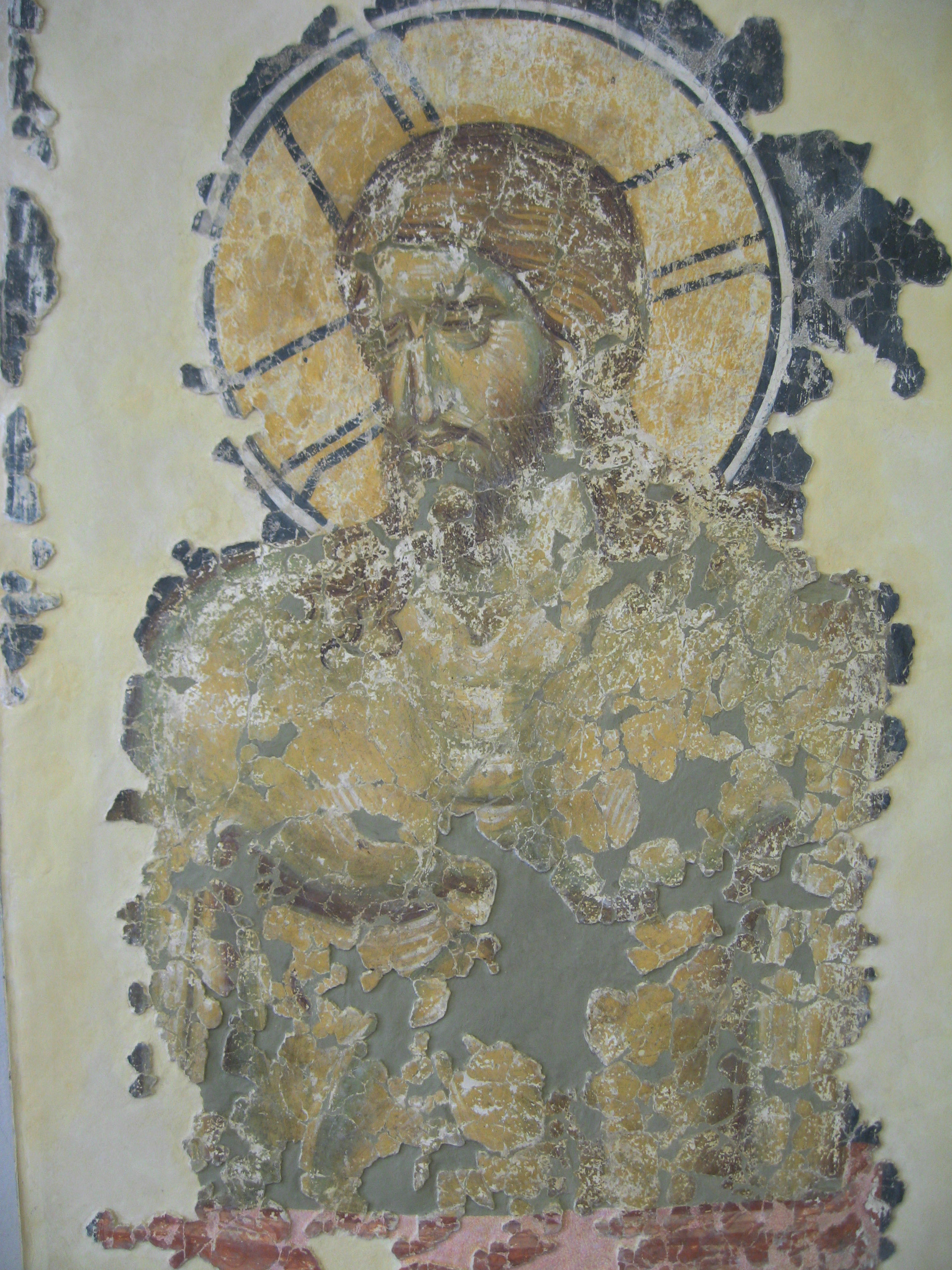 A fresco from the Transfiguration Church in Kovalyovo. The Novgorod Art Museum. Christ in the tomb.